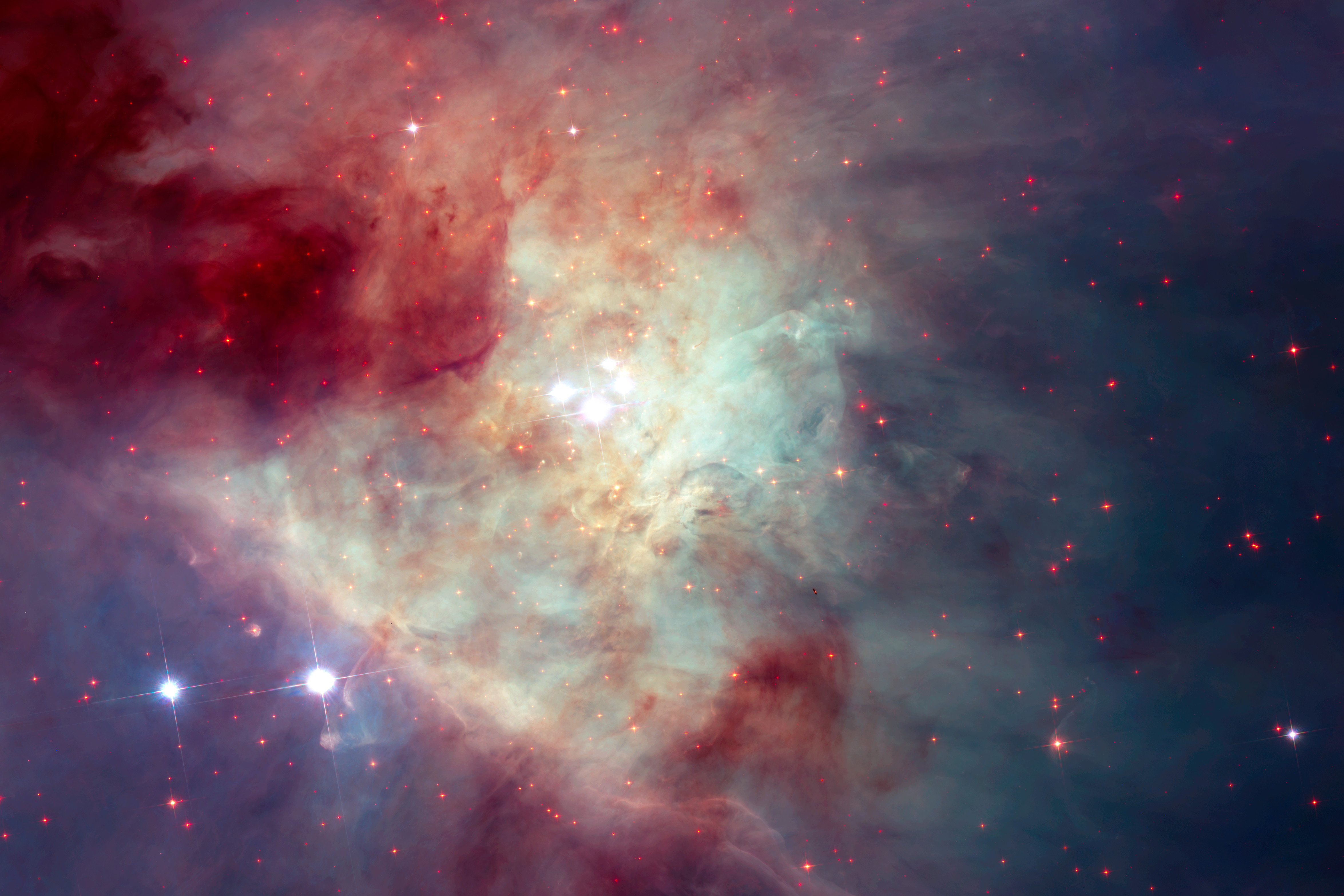 This composite image of the Kleinmann-Low Nebula, part of the Orion Nebula complex, is composed of several pointings of the NASA/ESA Hubble Space Telescope in optical and near-infrared light. Infrared light allows to peer through the dust of the nebula and to see the stars therein. The revealed stars are shown with a bright red colour in the image. With this image, showing the central region of the Orion Nebula, scientists were looking for rogue planets and brown dwarfs. As side-effect they found a fast-moving runaway star.